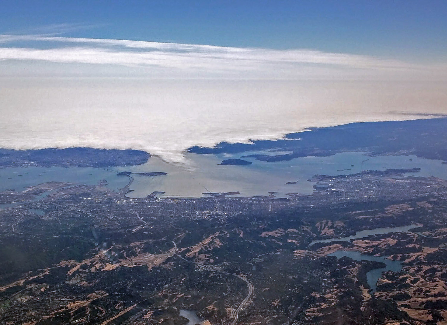 San Francisco's natural air conditioning, the fog, rolls in through the Golden Gate. Here it shrouds Alcatraz Island.